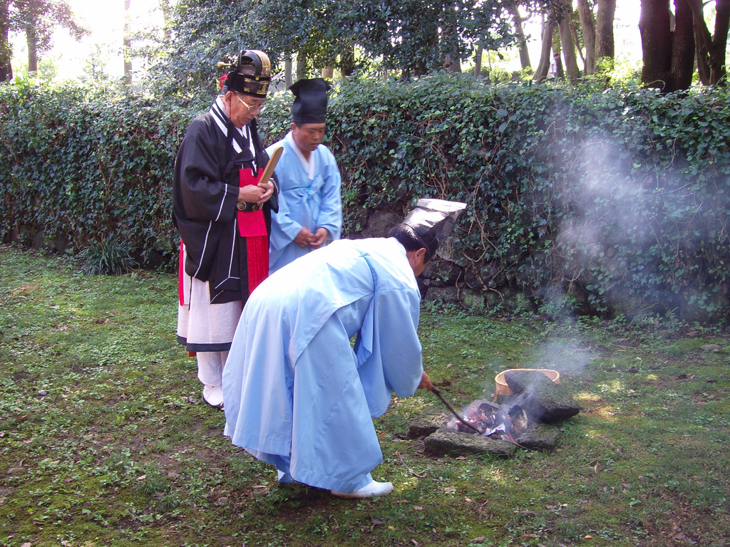 A Confucian ritual ceremony in Autumn in Jeju, South Korea. After the ritual ceremony, they burn anstral tablets made of paper.